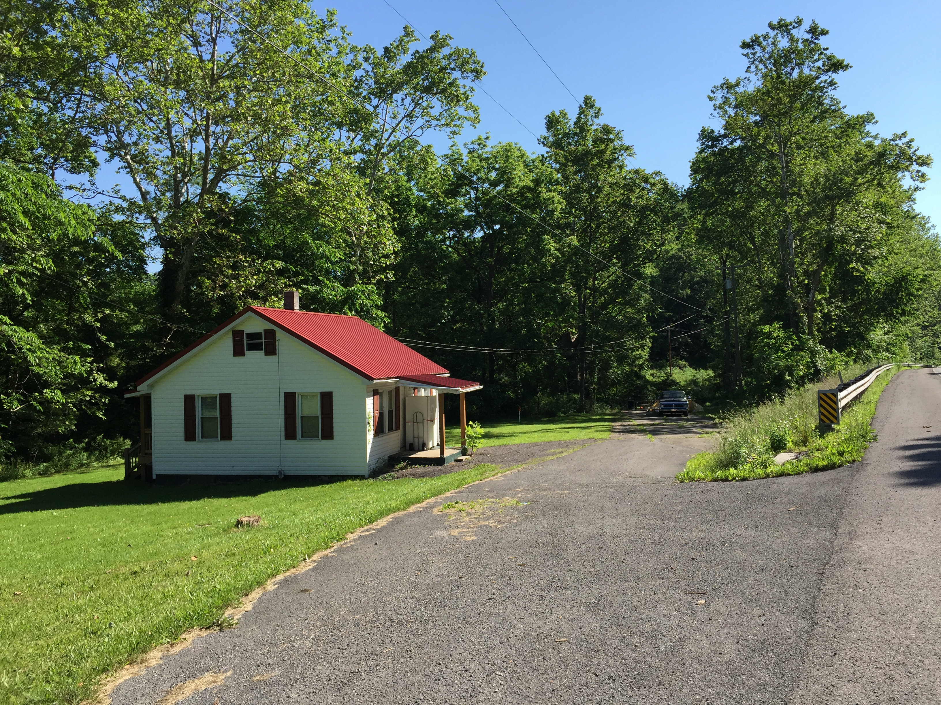 View north along Maryland State Route 830 (Old McMullen Highway) at U.S. Route 220 (McMullen Highway) just southwest of Rawlings in Allegany County, Maryland